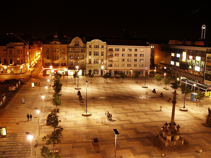 Masaryk Square in Ostrava, Czech Republic